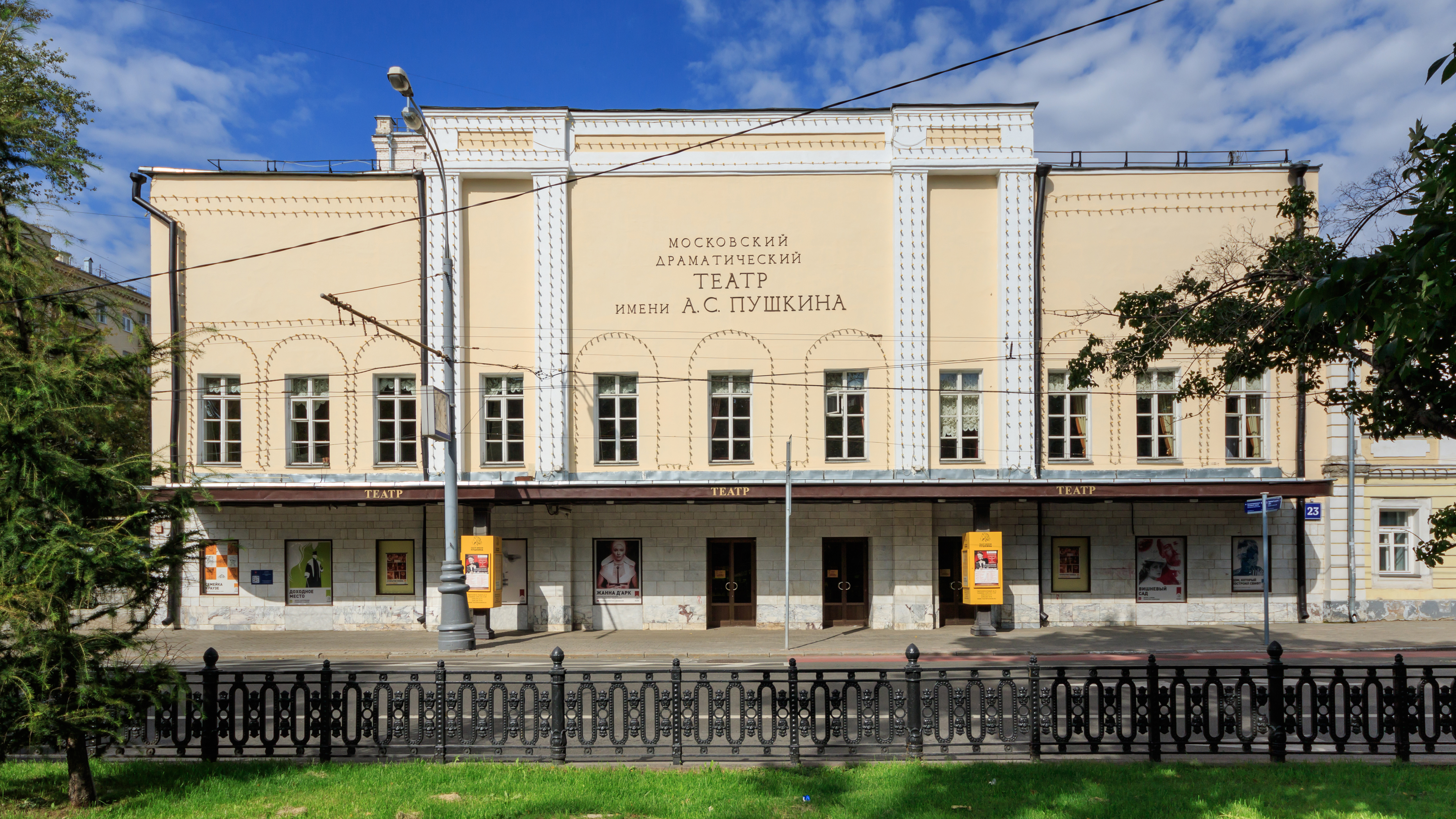 Building of the A.S.Pushkin Drama Theatre at Tverskoy Bvd. Moscow, Russia.